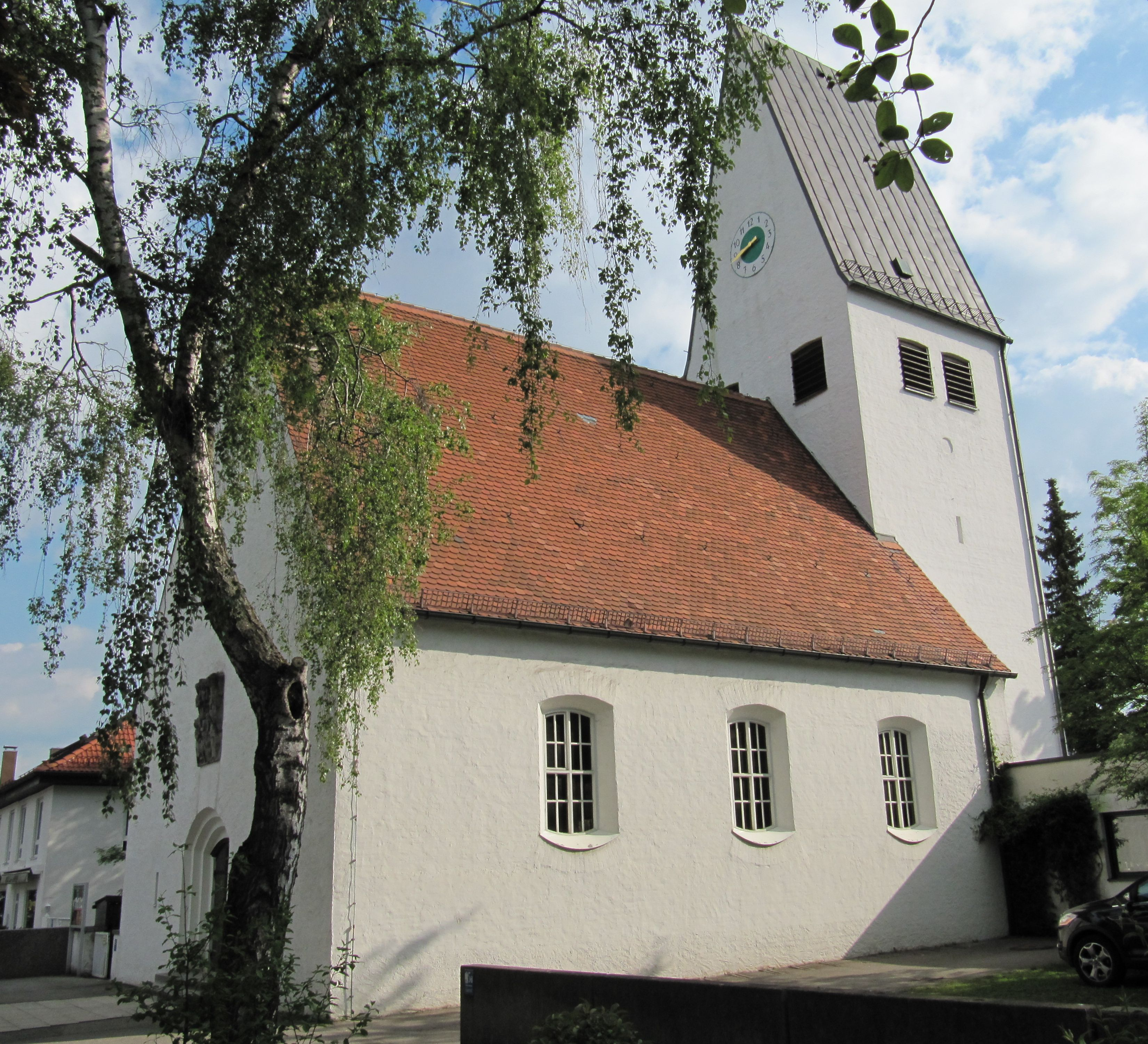 Munich-Aubing: Protestant church, "Adventskirche".